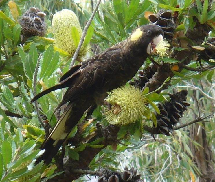 Adule female Yellow-tailed Black Cockatoo feeding on Banksia serrata, Rocky Cape National Park, Tasmania, Australia.